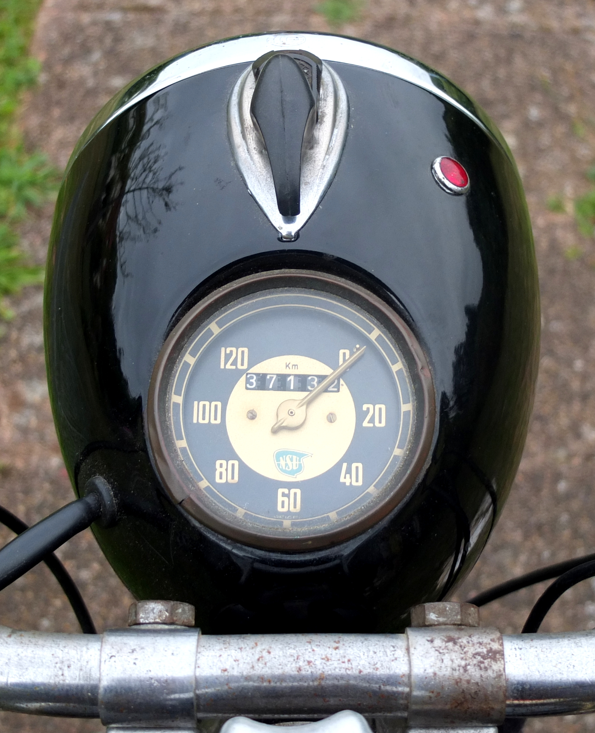 Speedometer of an NSU Lux, built 1952